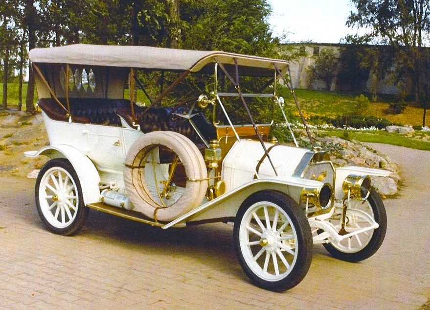 1910 Overland Automobile. Model 42. This photo was taken by my father (Ivan R. Jones of Littleton, Colorado, USA). This automobile was also restored by him. I am uploading it on his behalf.